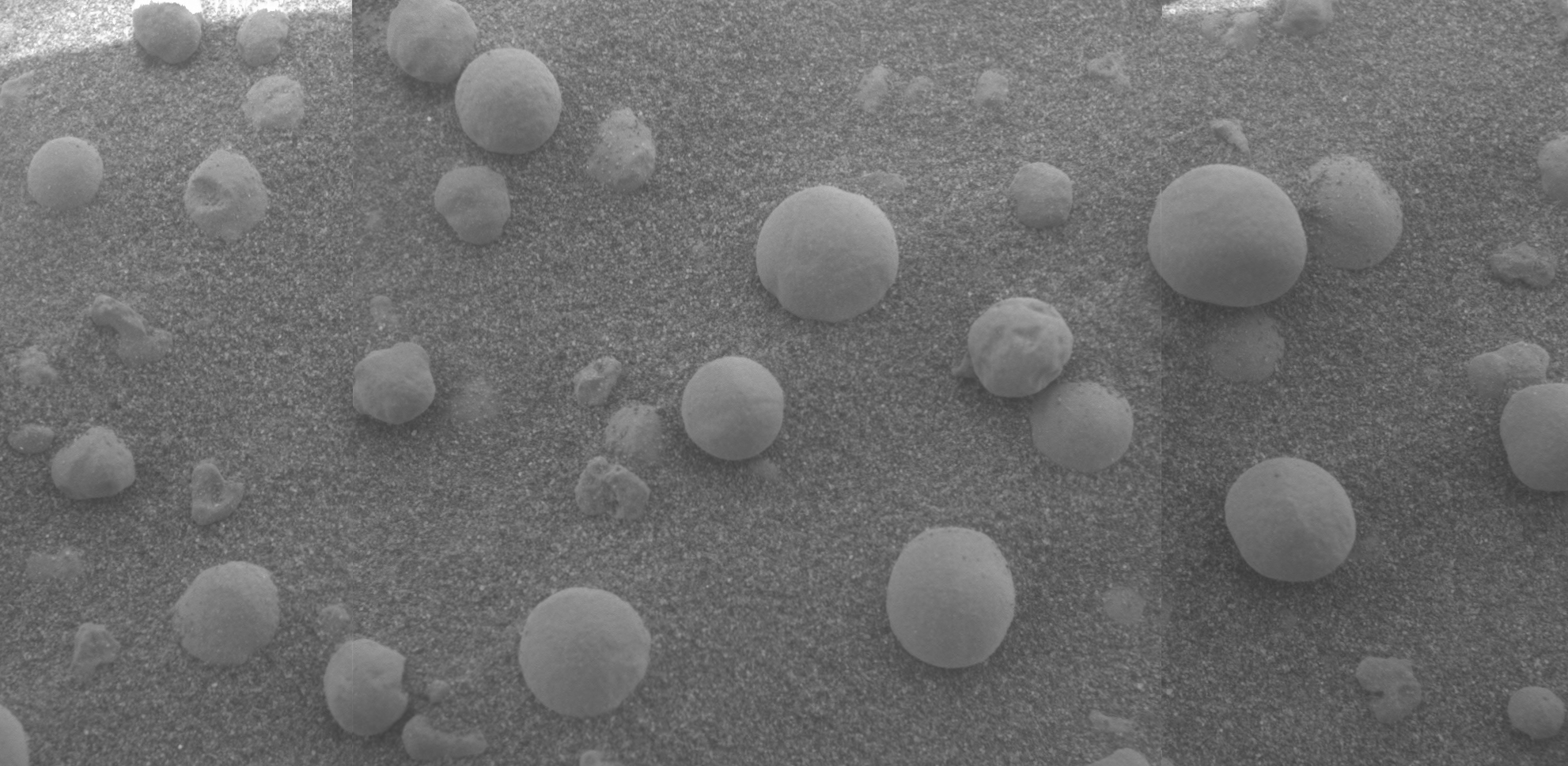 This mosaic image shows an extreme close-up of round, blueberry-shaped formations in the martian soil near a part of the rock outcrop at Meridiani Planum called Stone Mountain. Scientists are studying these curious formations for clues about the area's past environmental conditions. The image, one of the highest resolution images ever taken by the microscopic imager, an instrument located on the Mars Exploration Rover Opportunity's instrument deployment device or "arm."